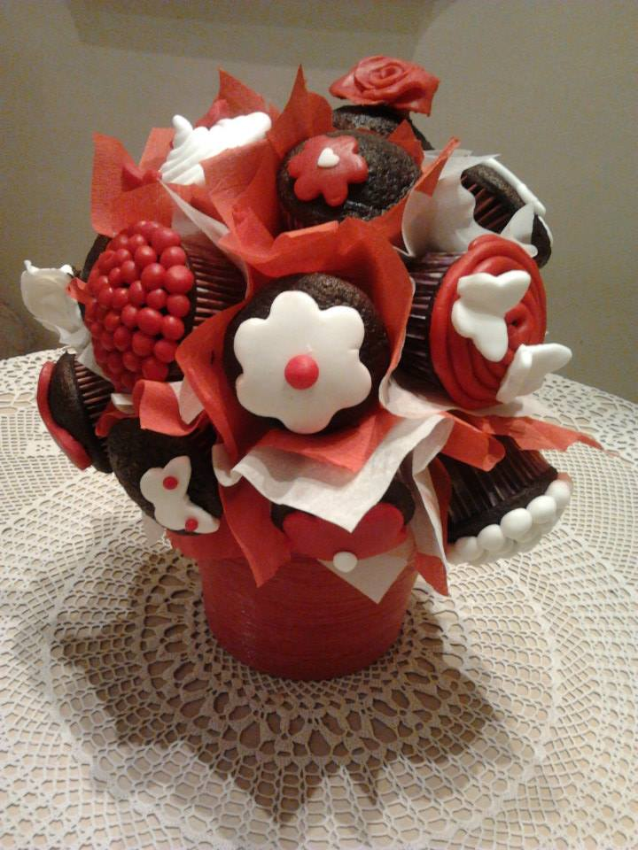 Bouquet of homemade cupcakes made by Chantal Hanna on 2014 Valentine's Day